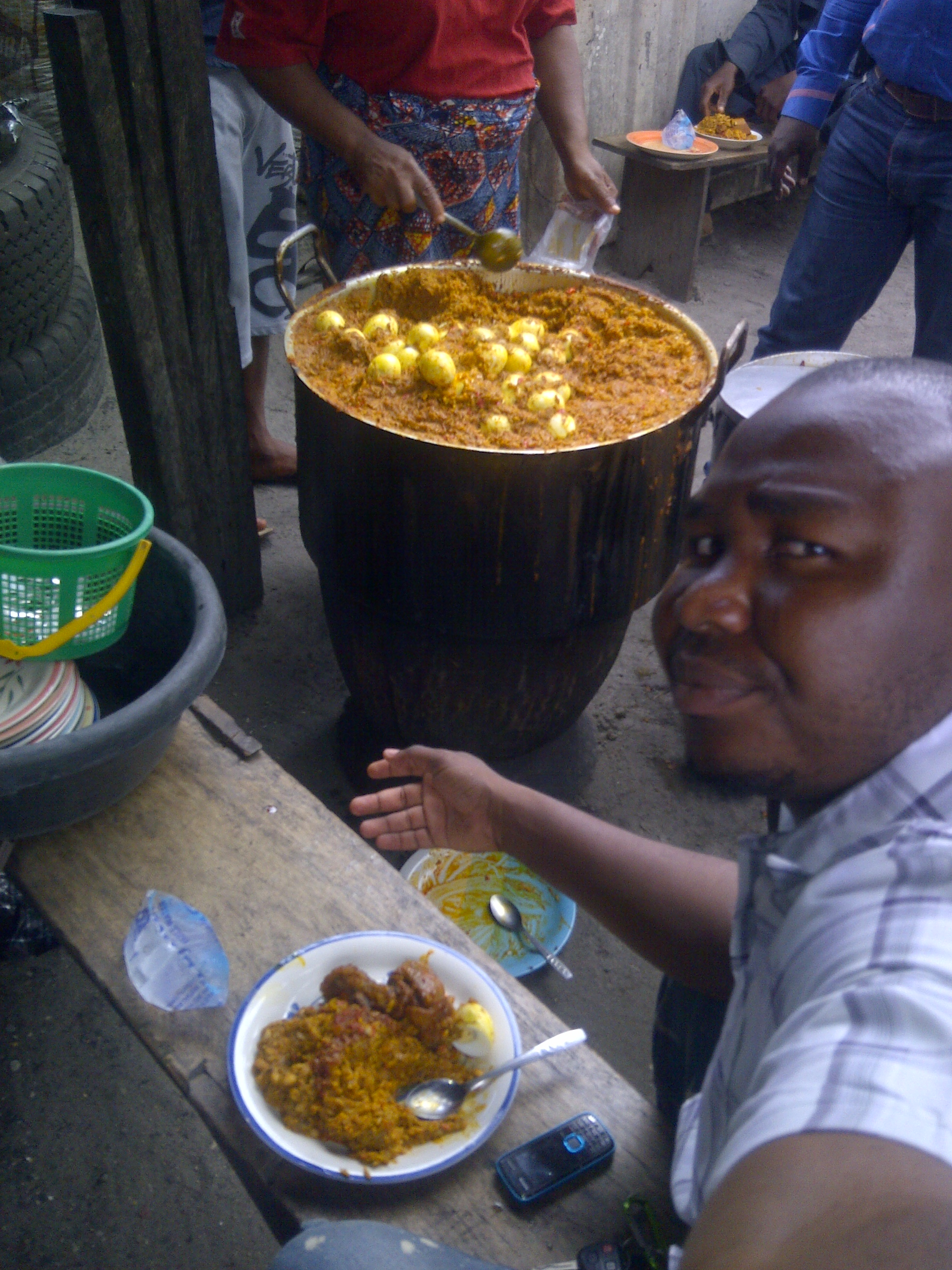 Pam oil Rice (Banga Rice) served with assorted cow meat and boiled egg This is an image of food from Nigeria